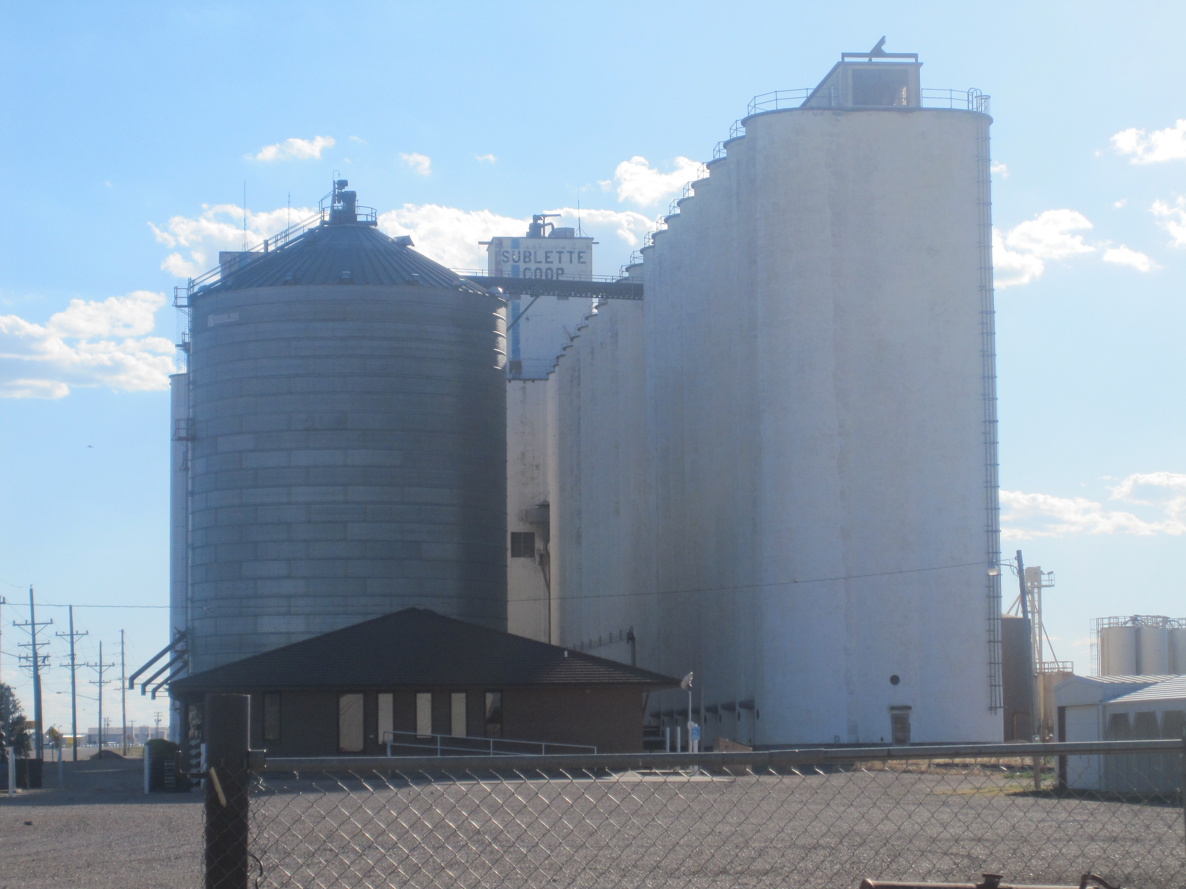 I took photo with Canon camera in Sublette, KS.